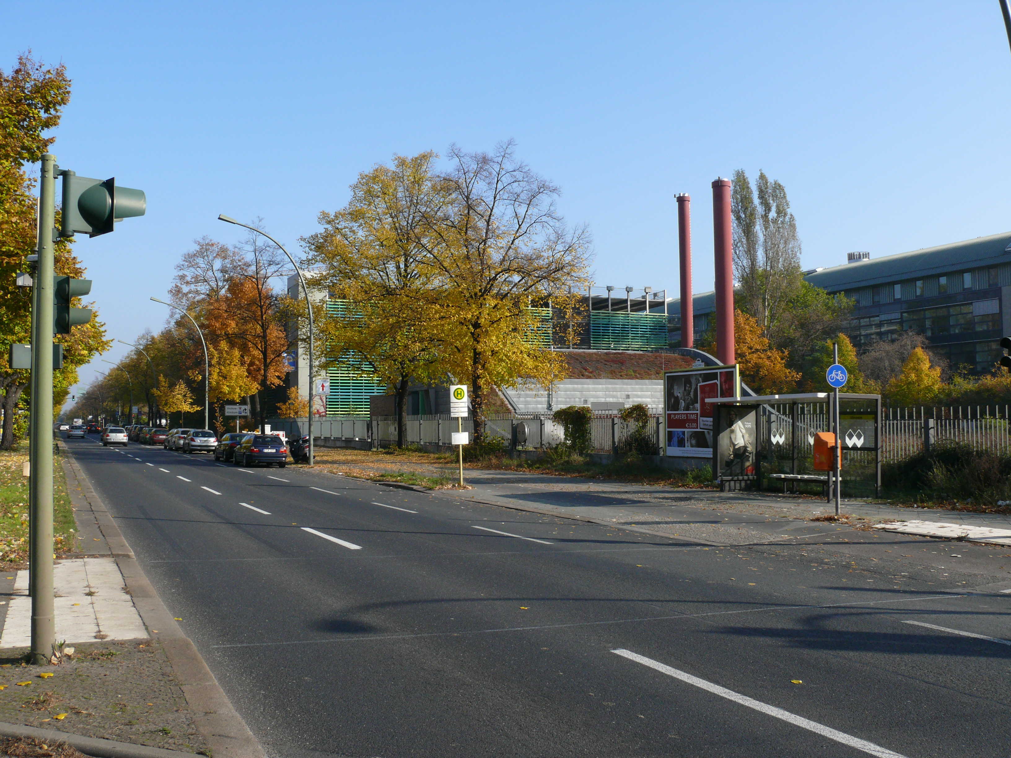 Wedding Seestraße Abwasserpumpwerk